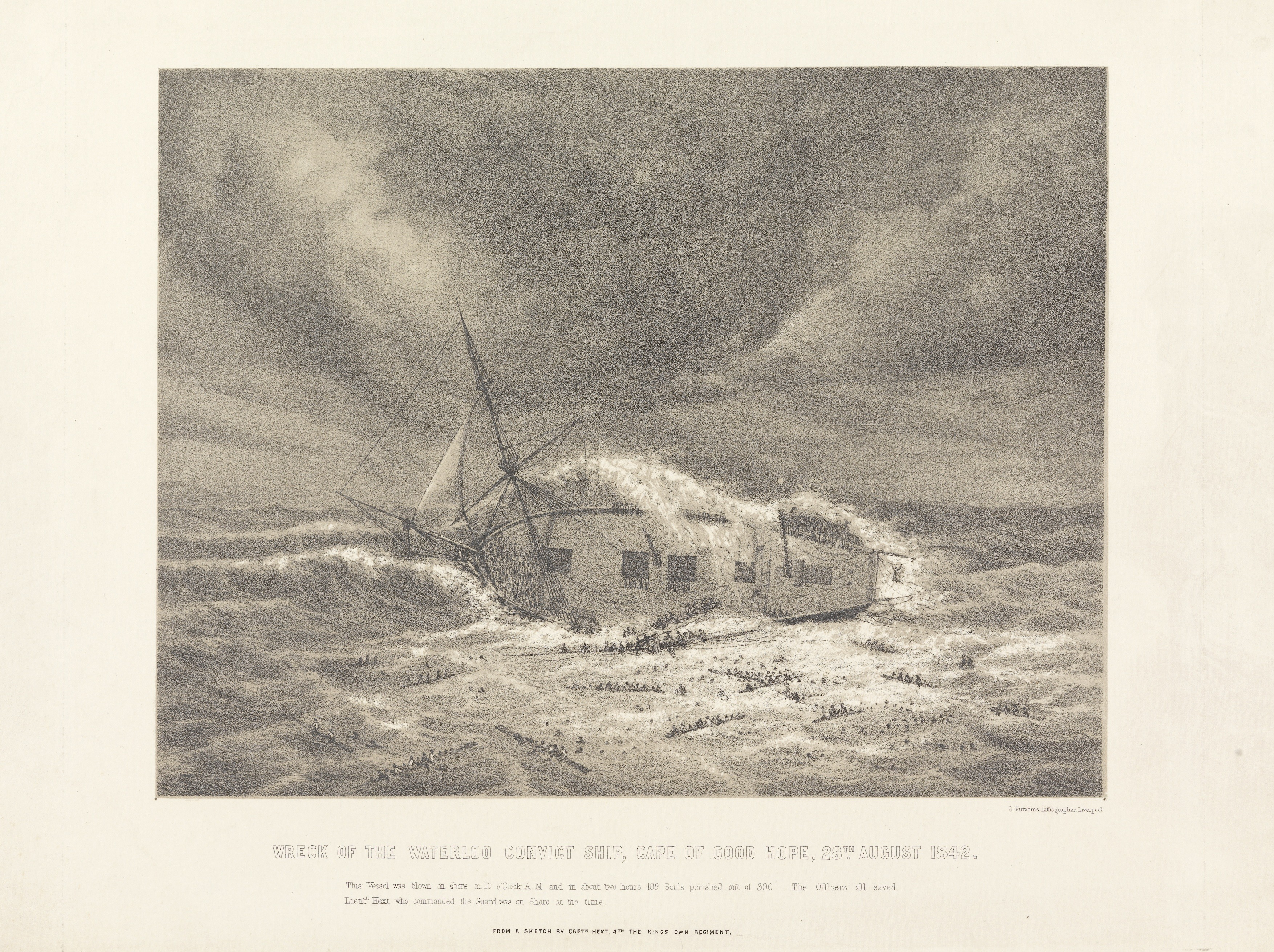 Image of the convict ship "Waterloo" aground in Table Bay on 28 August 1842